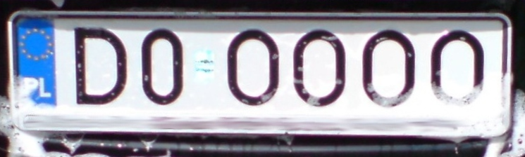 Polish individual license plate. Series since 2006